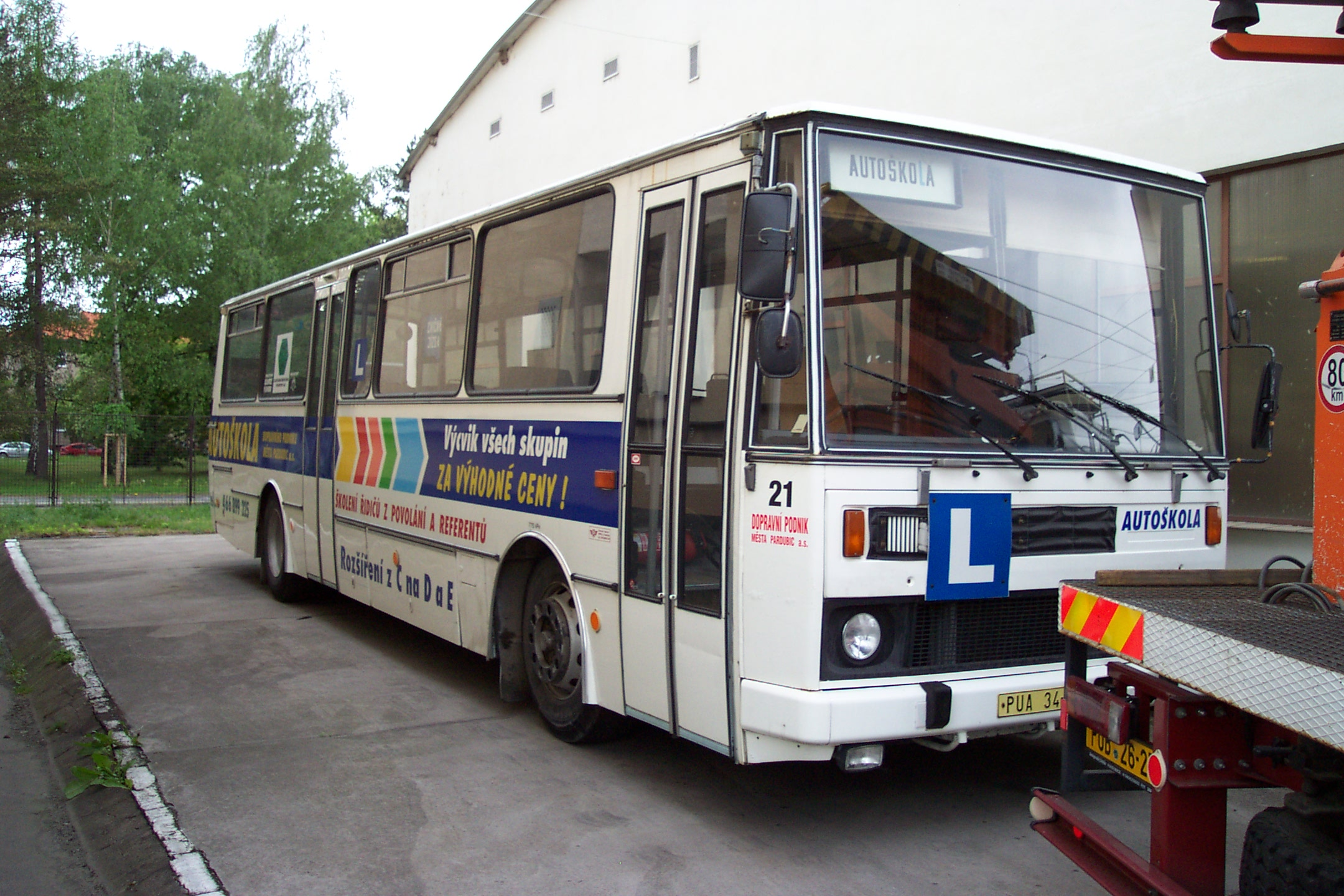 Bus-driving school in Pardubice Dukla vozovna depot